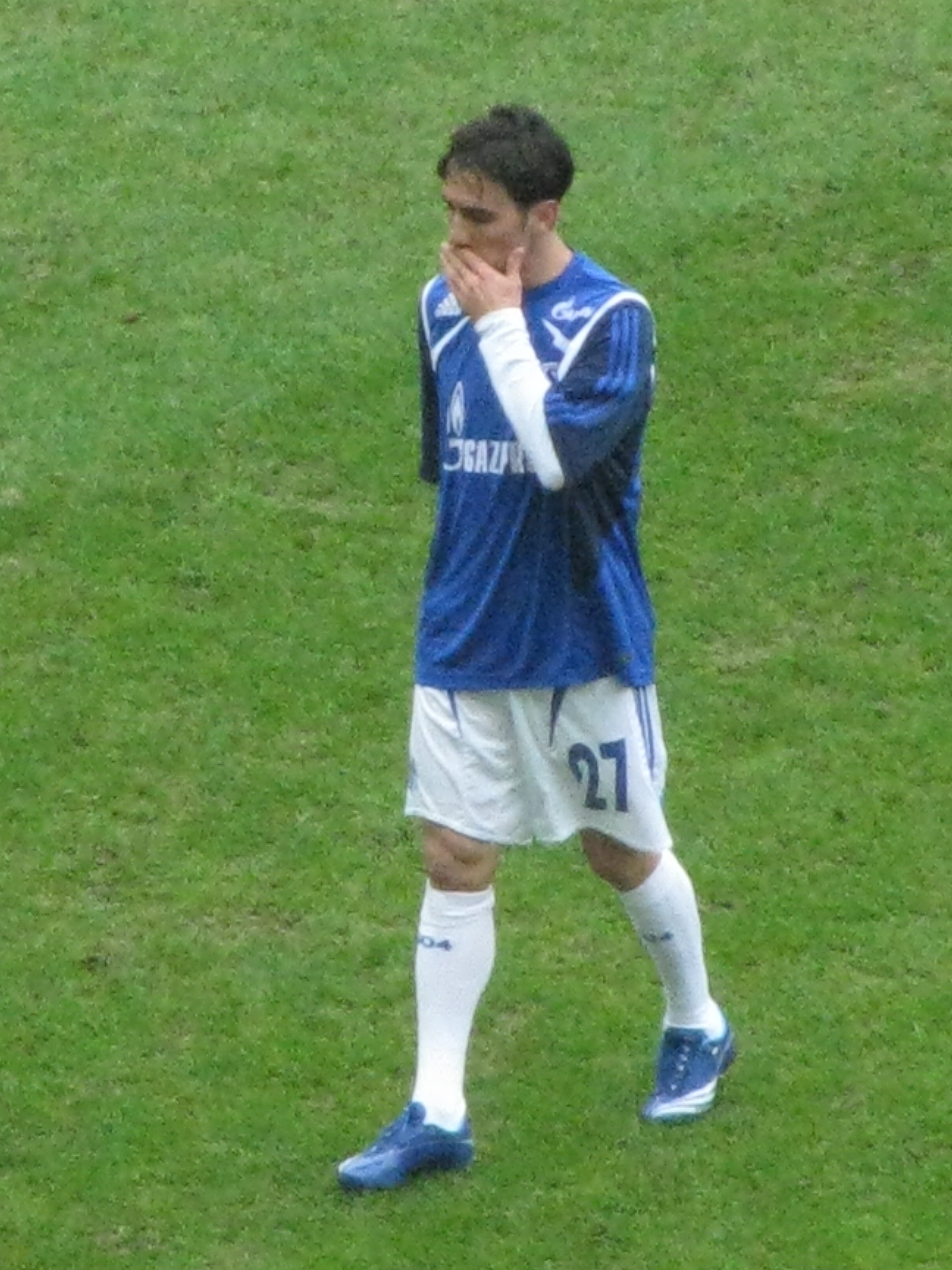 Professional football (soccer) player Vicente Sánchez, Schalke 04, at the Match against Eintracht Frankfurt